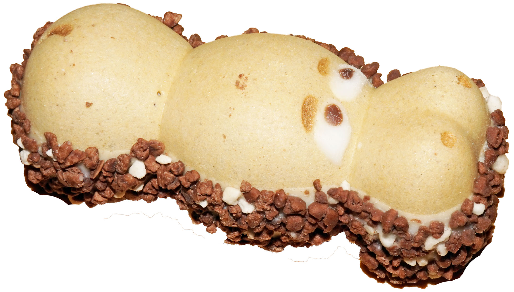 Kinder Happy Hippo candy.This photograph was taken with a Sony ILCE-5000